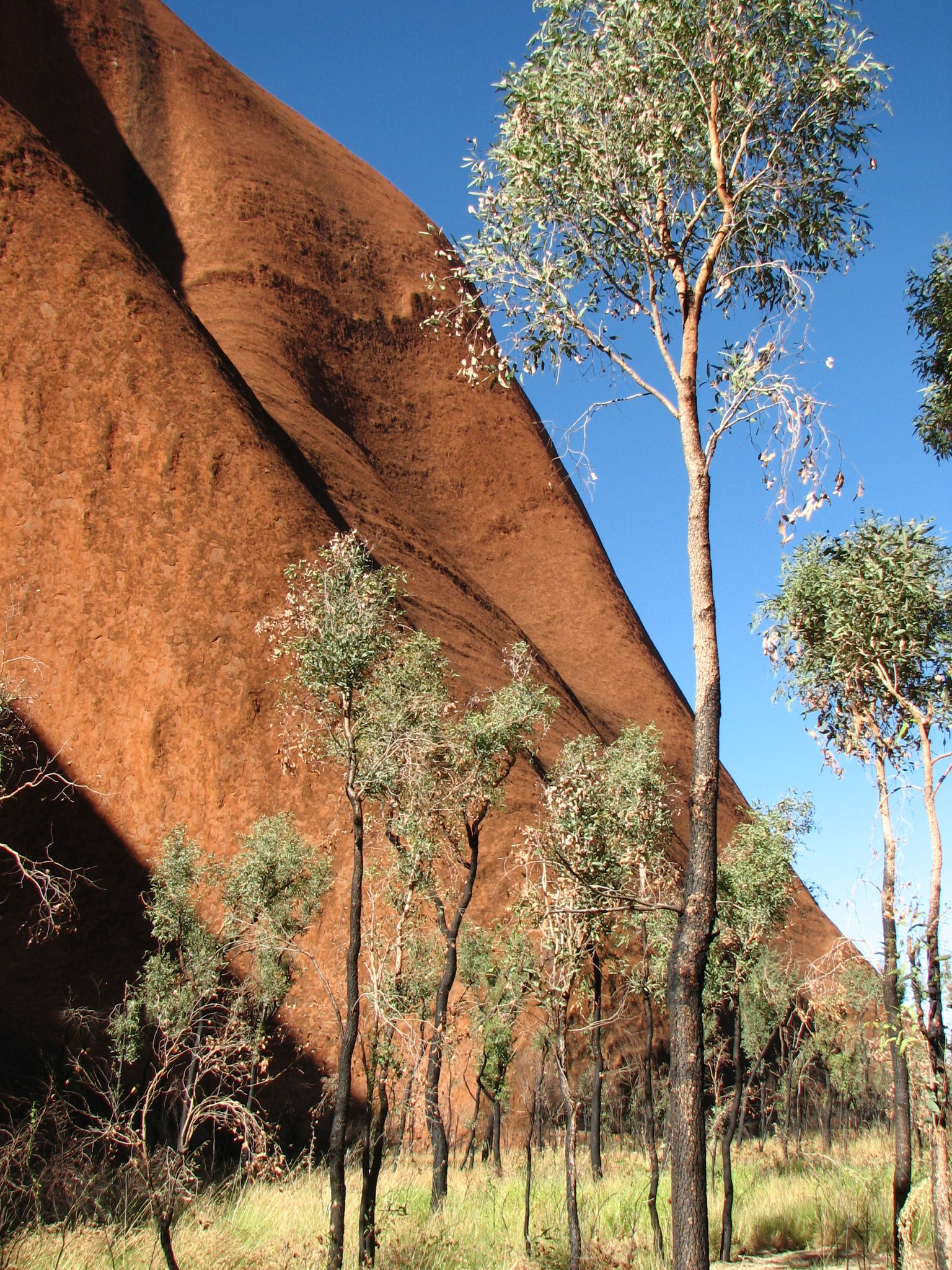 Trees at the base of Uluru, Central Australia